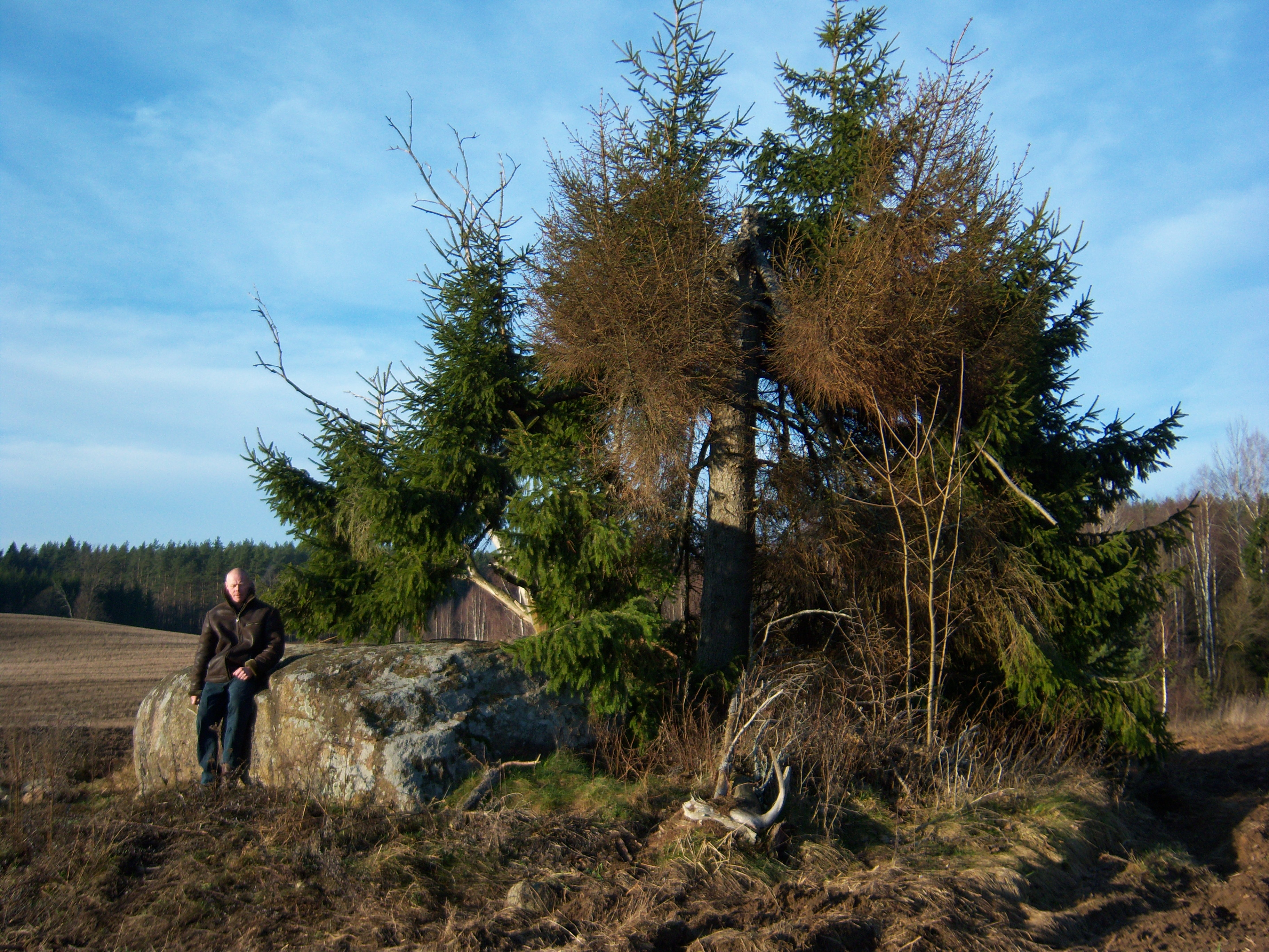 Rinkšeliai stone, Raseiniai District, Lithuania